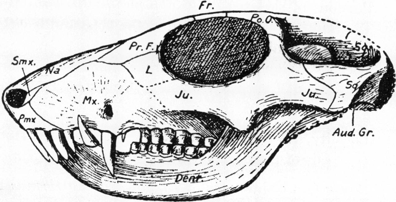 Sesamodon browni skull restoration, specimen 5517